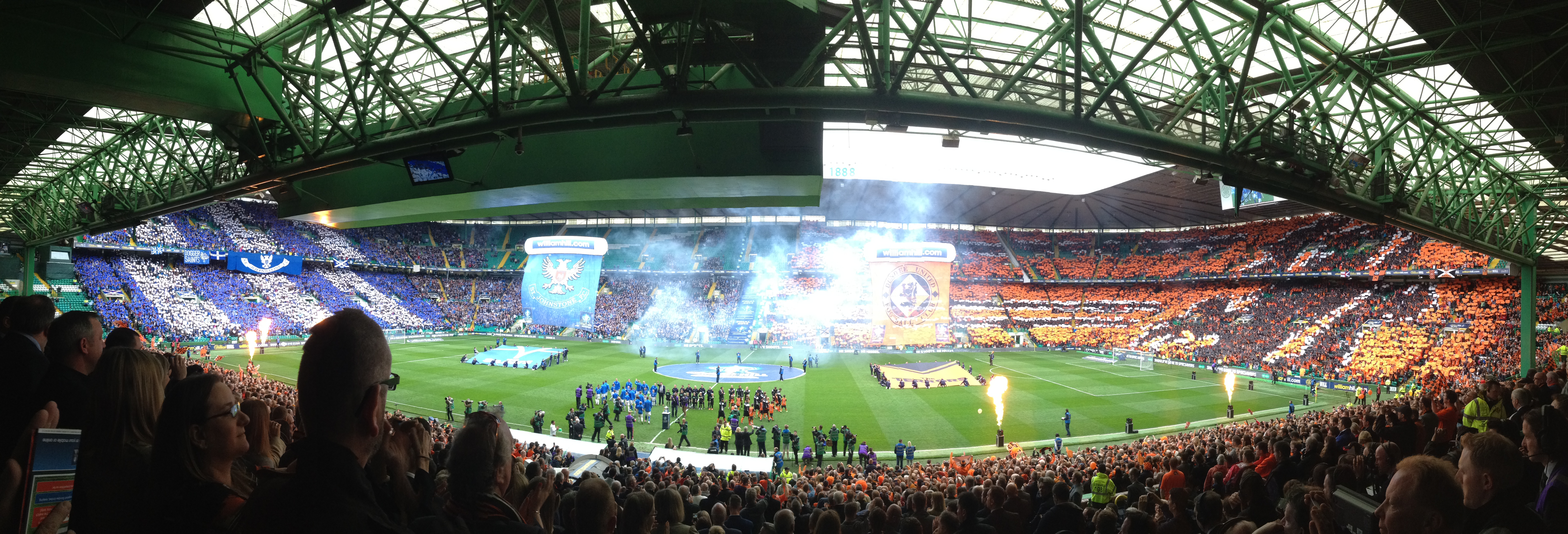 A panorama of the pre-game card display at Celtic Park on May 17 2014 for the Scottish Cup Final between St Johnstone and Dundee United.